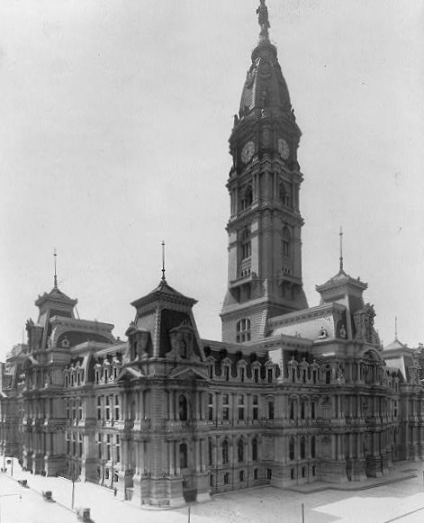 Library of Congress - Copyright 1899 - TITLE: City Hall, Philadelphia, Pa. - CALL NUMBER: U.S. GEOG FILE - Pennsylvania--Philadelphia [item] [P&P] - REPRODUCTION NUMBER: LC-USZ62-74155 (b&w film copy neg.) - RIGHTS INFORMATION: No known restrictions on publication. - MEDIUM: 1 photographic print. - CREATED/PUBLISHED: c1899. - NOTES: Photo copyrighted by R. Newell & Son. - This record contains unverified, old data from caption card. REPOSITORY: Library of Congress Prints and Photographs Division Washington, D.C. 20540 USA DIGITAL ID: (b&w film copy neg.) cph 3b21427 CONTROL #: 2003675074